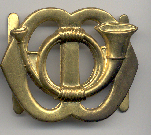 Baret Badge Dutch Garde Jagers 1e model issued 1947